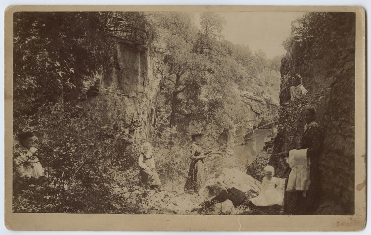 Title: View approaching "Lover's Retreat" 3 miles west from Palo Pinto, Tex. Creator: Unknown Date: 1892 Part Of: Lawrence T. Jones III Texas photography collection Physical Description: 1 photographic print: gelatin silver; 11.3 x 19.1 cm. on 12.6 x 20.2 cm. mount File: ag2008_0005_4_3_8_02_lovers_opt.jpg Rights: Please cite Southern Methodist University, Central University Libraries, DeGolyer Library when using this image file. A high-quality version of this file may be obtained for a fee by contacting . For more information, see: View the Lawrence T. Jones III Texas Photographs at